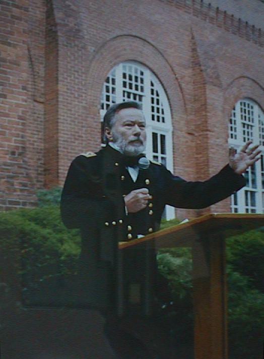 Chris Evans, 1st-person impressionist, reenacting General William Tecumseh Sherman's speech at the Michigan Military Academy. The occasion, organized by the Greater West Bloomfield Historical Society, was the 120th Anniversary of the speech (June, 1999).